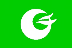 Flag of Chikuhoku Nagano